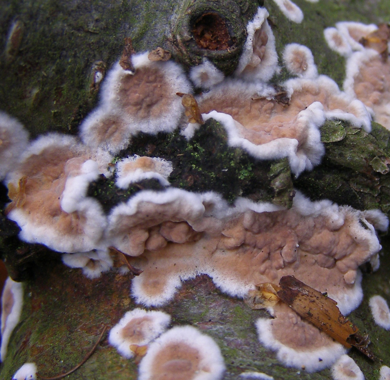 Fungus Cylindrobasidium evolvens growing on dead branch of a deciduous tree.